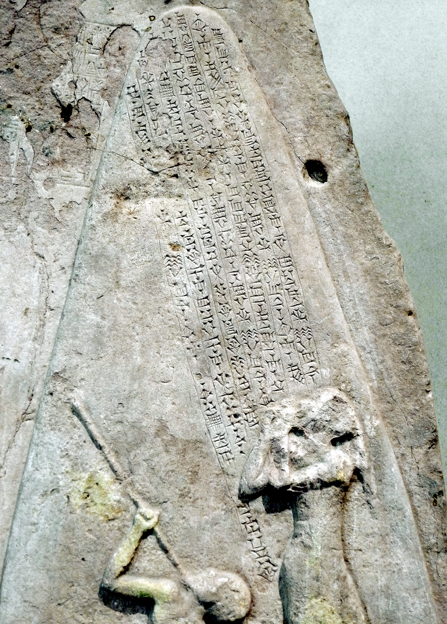 Stele of Narâm-Sîn, king of Akkad, celebrating his victory against the Lullubi from Zagros. Limestone, c. 2250 BCE. Brought from Sippar to Susa among other spoils of war in the 12th century BCE. Now given dates for Naram-Suen of Akkad, reign 2190 - 2154 BC ; detail.